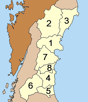 Map of Chumphon province, Thailand, with the districts (Amphoe) numbered. Mueang Chumphon (อำเภอเมืองชุมพร) Tha Sae (อำเภอท่าแซะ) Pathio (อำเภอปะทิว) Lang Suan (อำเภอหลังสวน) Lamae (อำเภอละแม) Phato (อำเภอพะโต๊ะ) Sawi (อำเภอสวี) Thung Tako (อำเภอทุ่งตะโก)